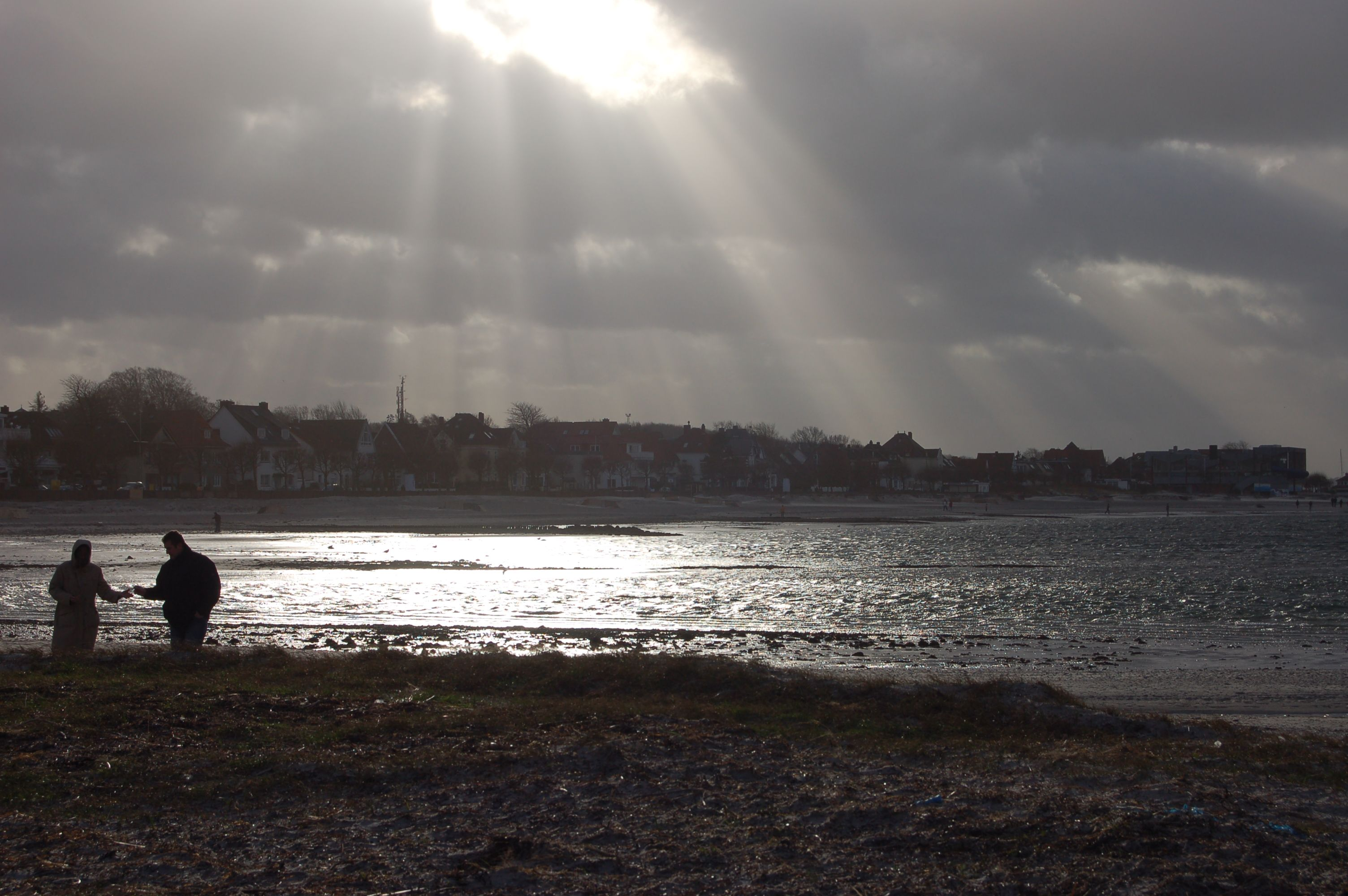 Laboe beach in winter time